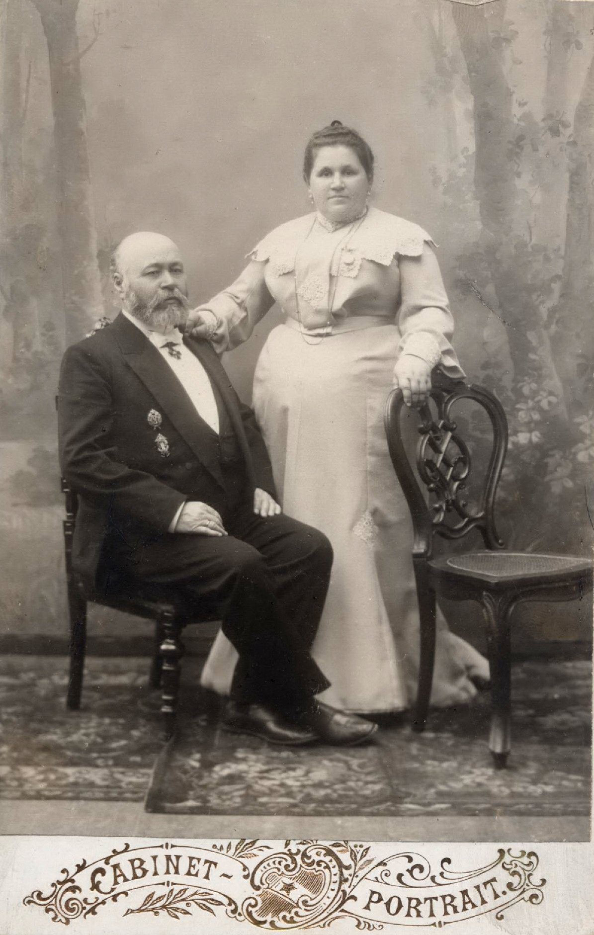 Portrait of Sergei Semenov Terent'evich merchant and his wife Olga